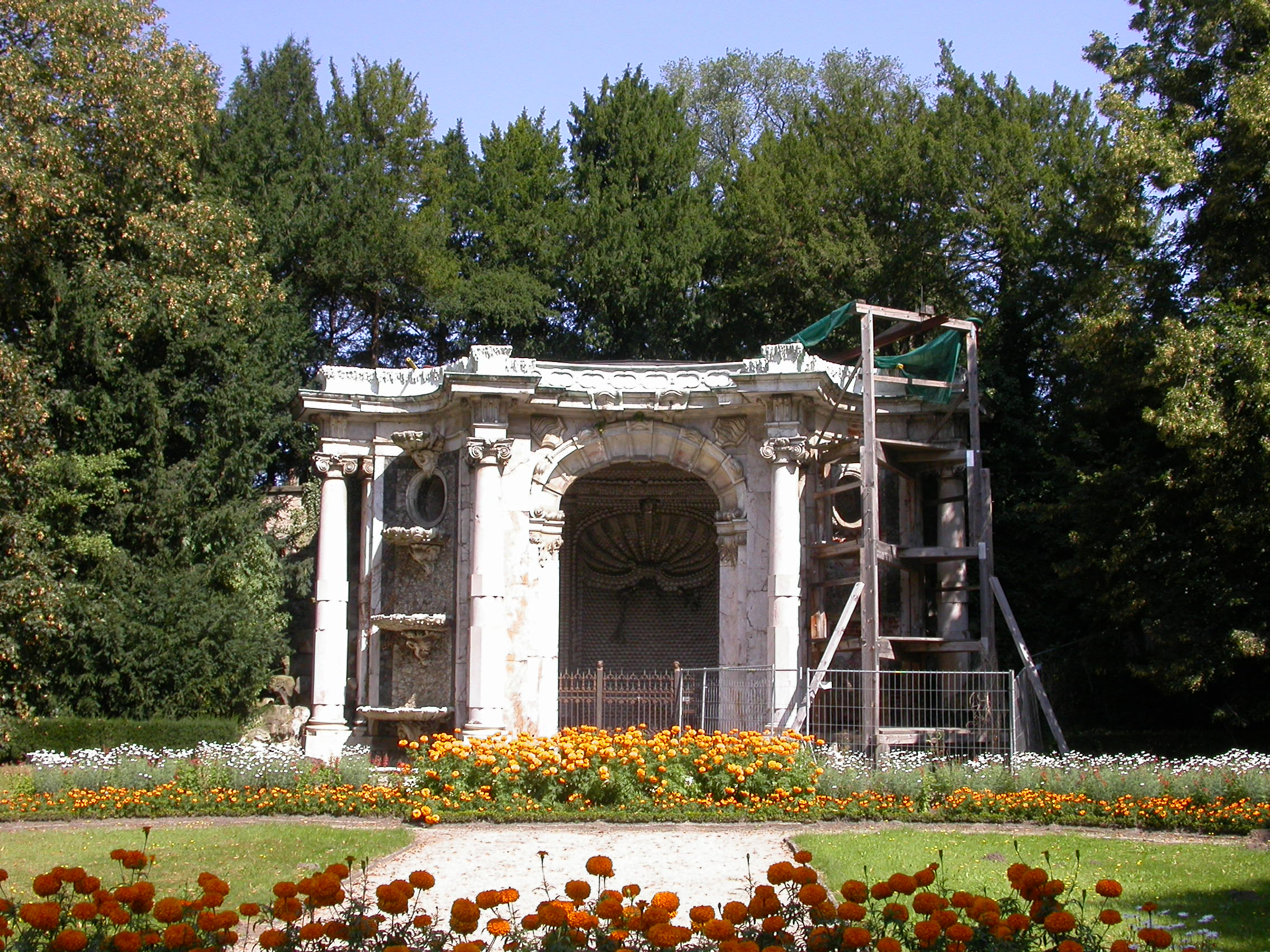 The Neptune Grotto at Sanssouci Park in Potsdam near Berlin, Germany